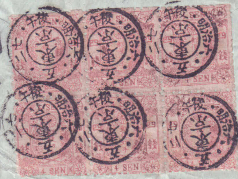 Japan - 1873 - BOINVILLE letter - part 1